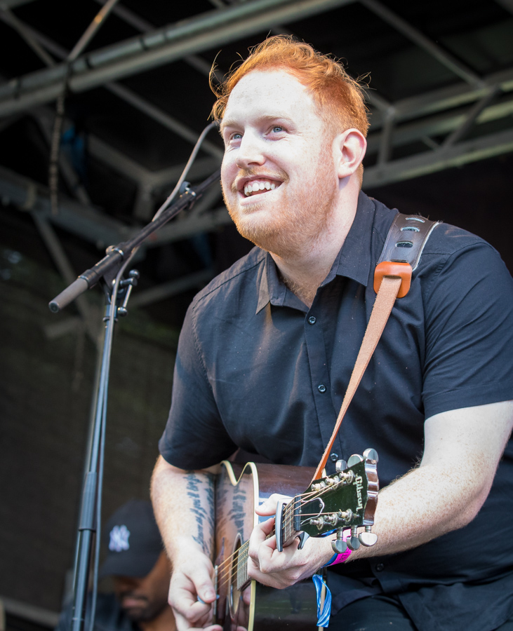 Gavin James at the minor stage in the Vigeland Park. The concert was part of Piknik i Parken and took place on 24. June 2017 in Oslo. Lineup: Gavin James (vocal and guitar).